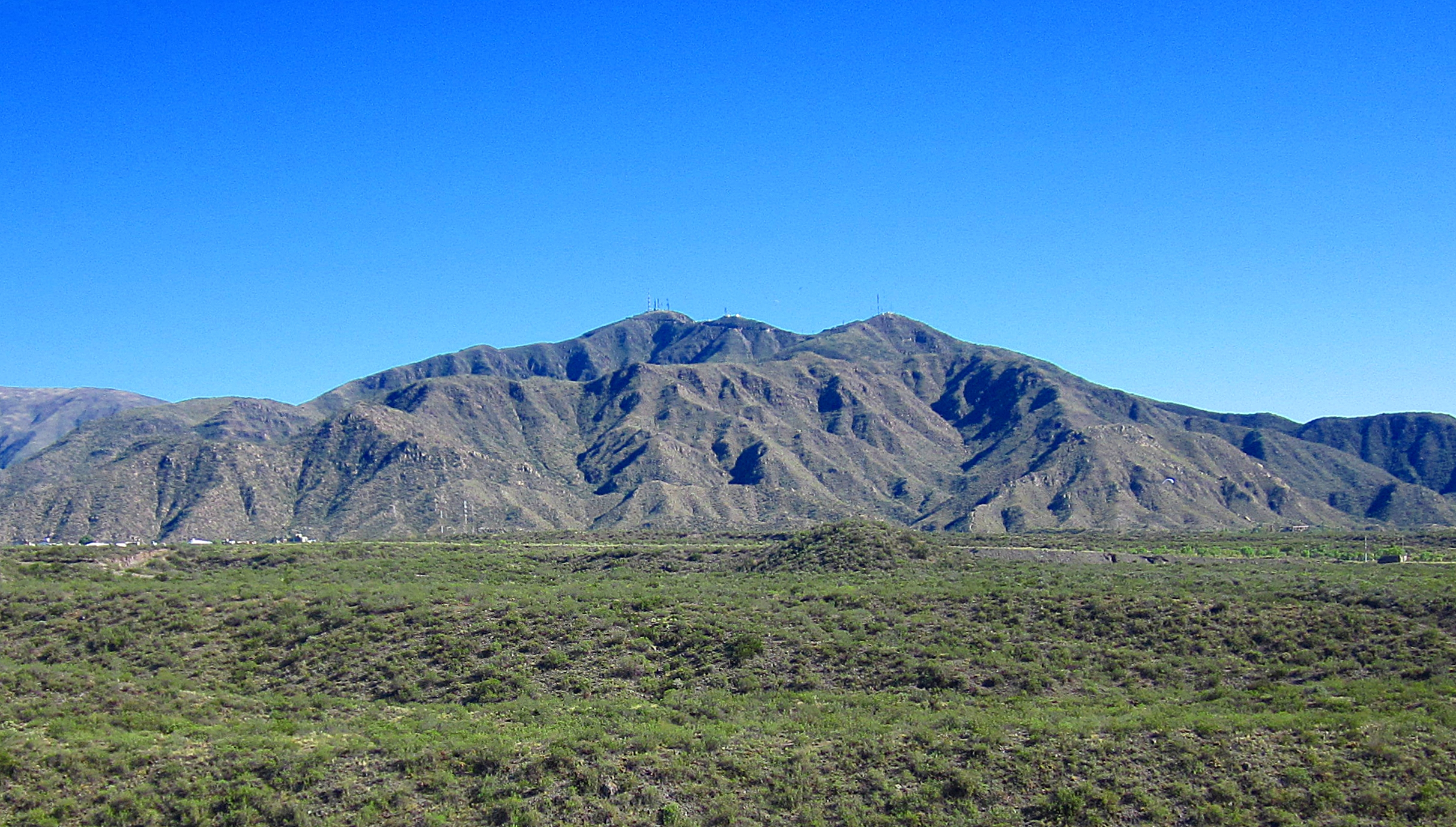 Cerro Arco visto desde la Reserva natural Divisadero Largo.